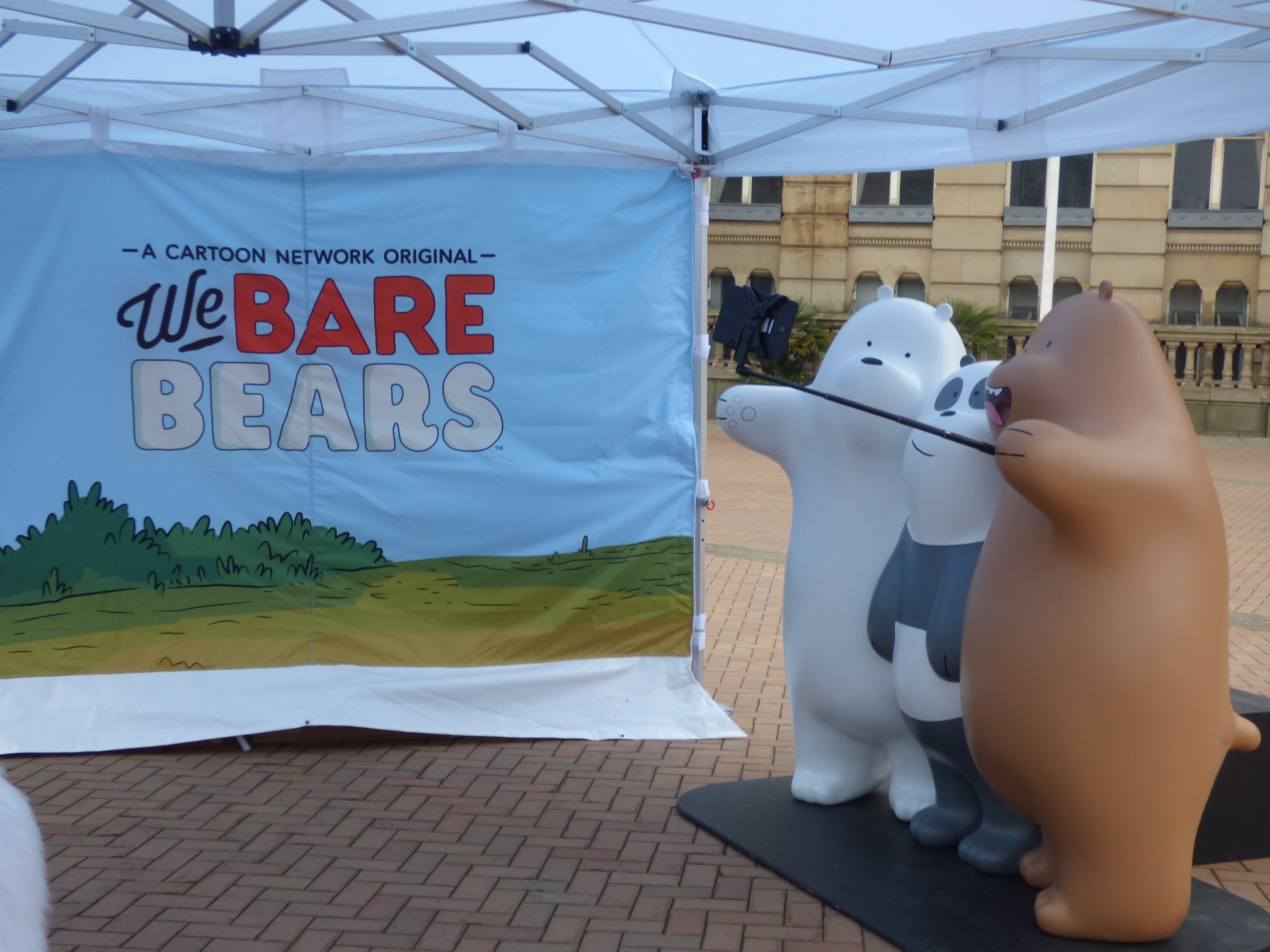 Cartoon Network - We Bare Bears - Victoria Square, Birmingham. At first thought this was the return of The Big Sleuth (it wasn't)!